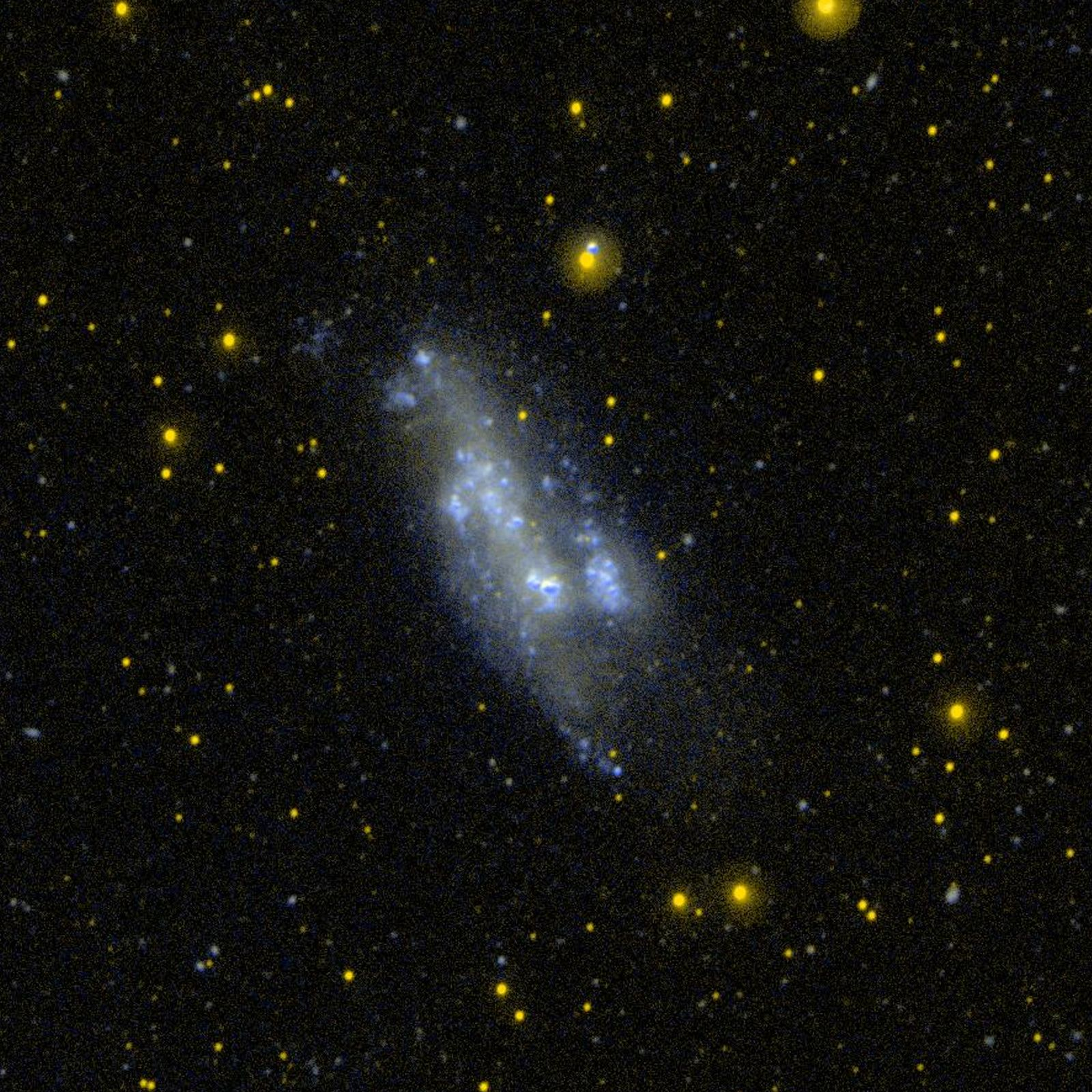 The irregular galaxy NGC 2366, NGC 2363 is a star-forming region within the galaxy. Image by GALEX